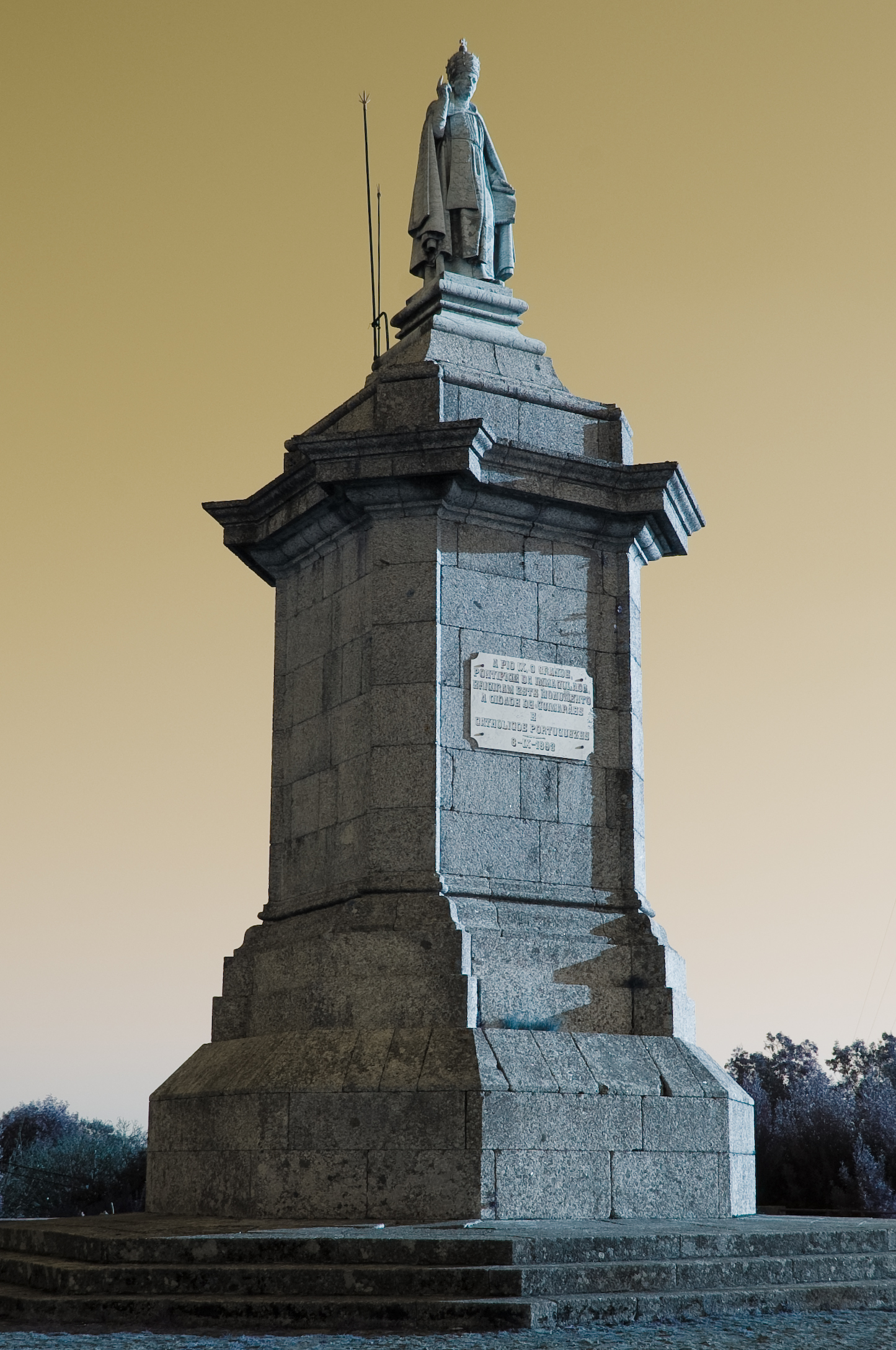 Statue of Pius IX in Penha, Guimarães.